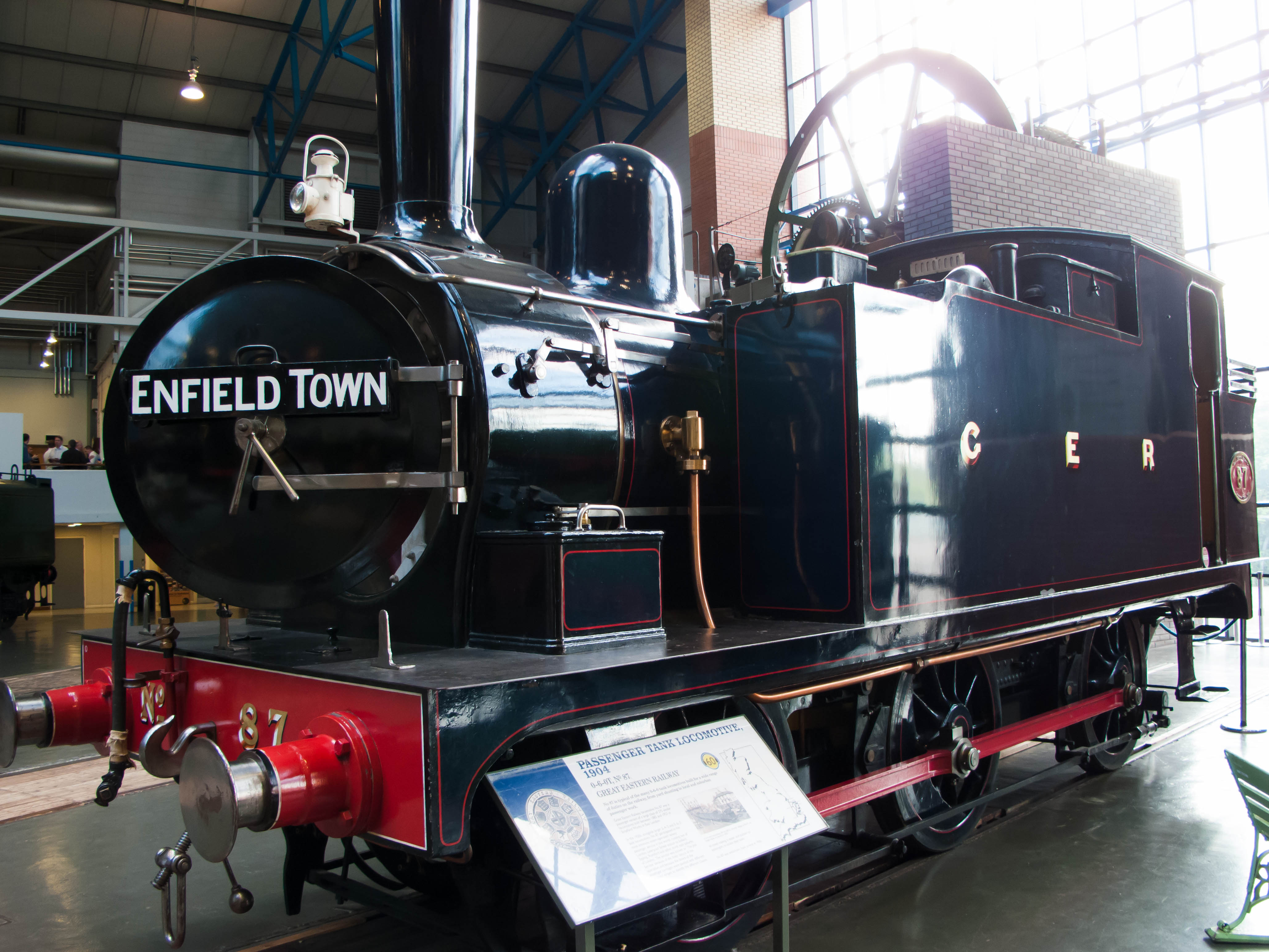 National Railway Museum, York